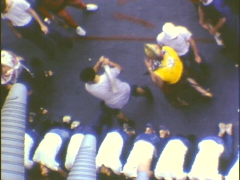 wyswyg